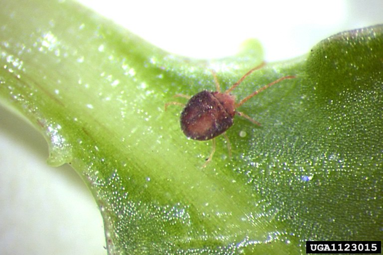 Bryobia praetiosa on garden impatiens